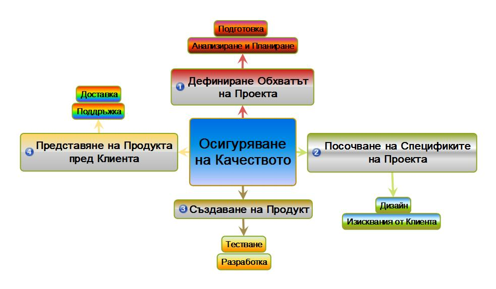 Quality Assurance